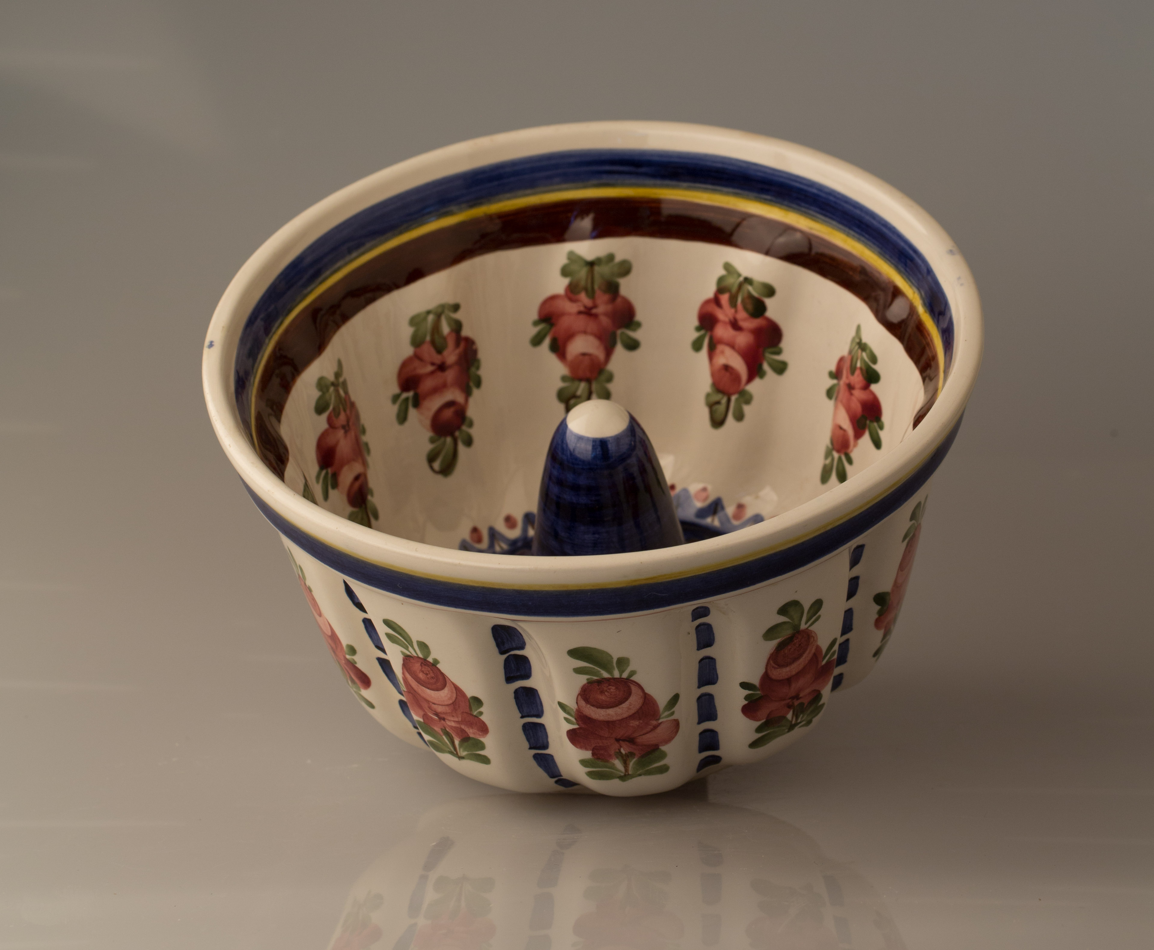 Bäuerliche Kuchen- und Backformen aus Keramik Historical ceramic cake pans Keramische Volkskultur in Laafeld bei Bad Radkersburg Fotoaktion vom 7. bis 10. Juli 2014 The making of this work was supported by Wikimedia Austria. For other files made with the support of Wikimedia Austria, please see the category Supported by Wikimedia Österreich. Tiroler Majolika, Wechsler Schwaz Tirol um 1970